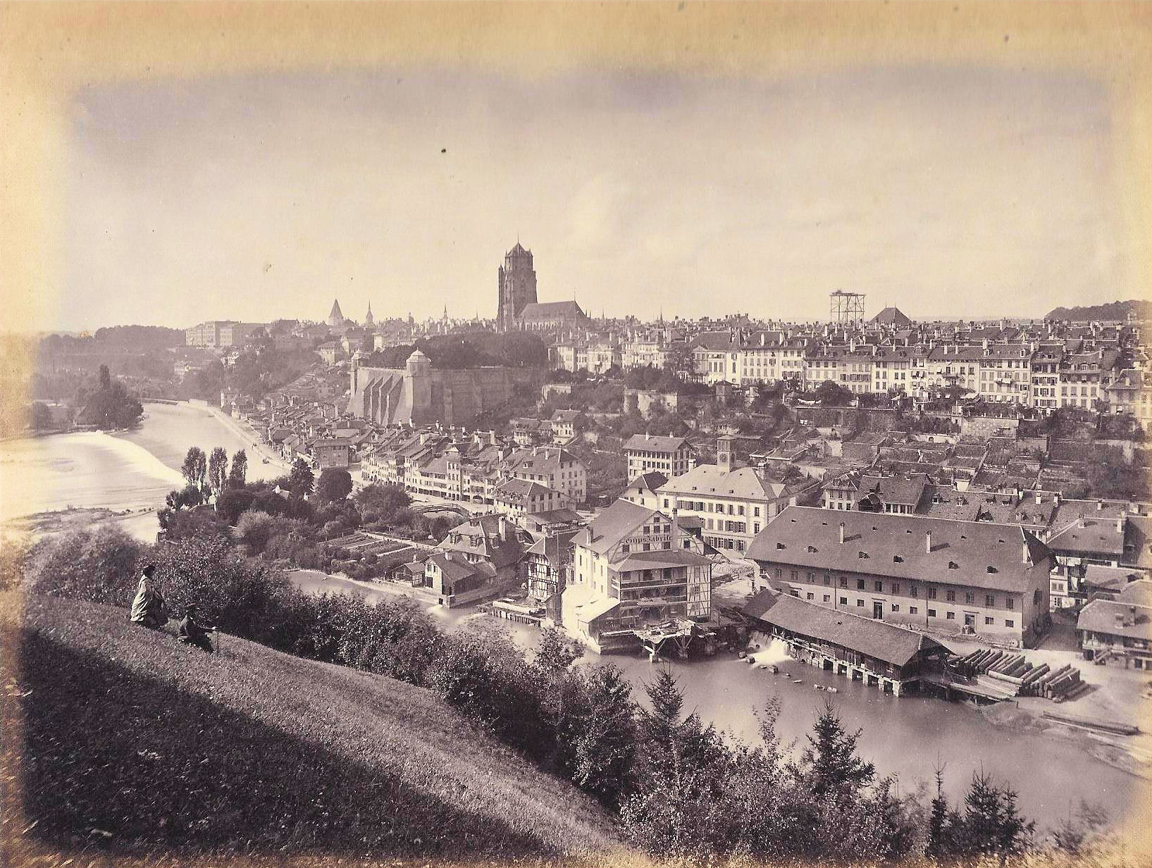 William England: Berne 1863, Large Cabinet Series (8 1/2 auf 6 1/2 Inch), W. England, registered. VIEWS of SWITZERLAND and SAVOY. Dedicated by permission to the Alpine Club. Mess_rs Marion Son & C° 22 & 23 Soho Square, London W.,(1863-1865).